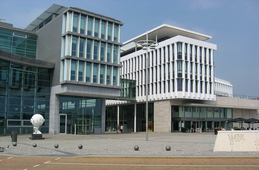 A view of the Mosae Forum shopping centre, located between Wilhelmina Bridge and the Market Square. Aside from various stores and shops, it also houses offices of city council. The much-praised design is one of renowned Dutch architect Jo Coenen.